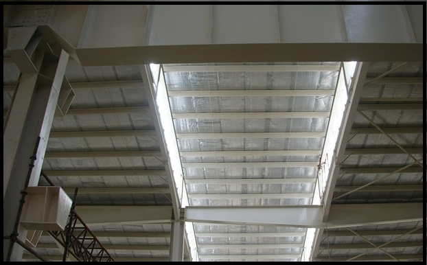 Radiant barrier is a radiant heat reflective insulation material - Supreme Industries